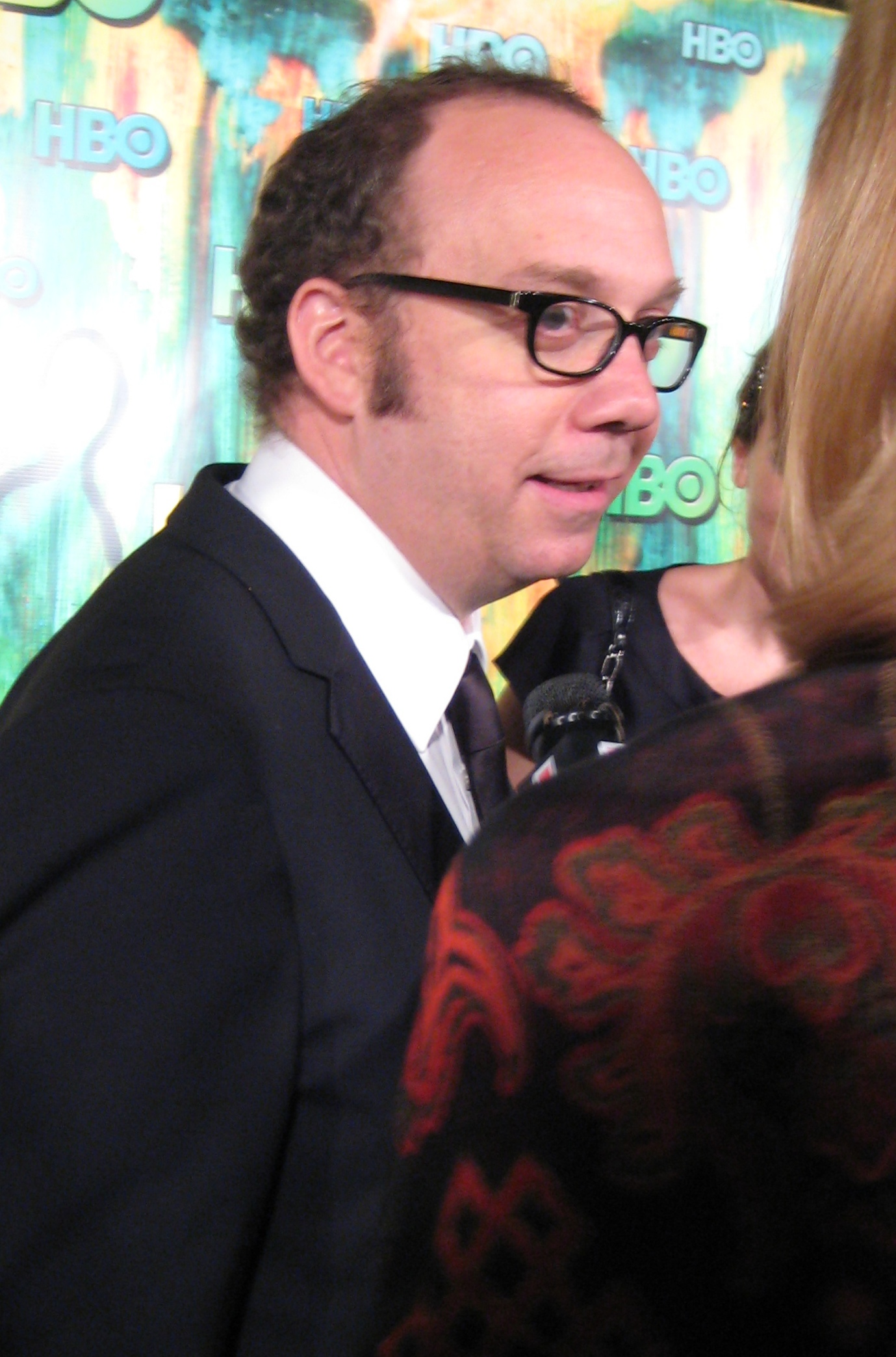 HBO Post-Emmys Party, Pacific Design Center, Sept. 21, 2008